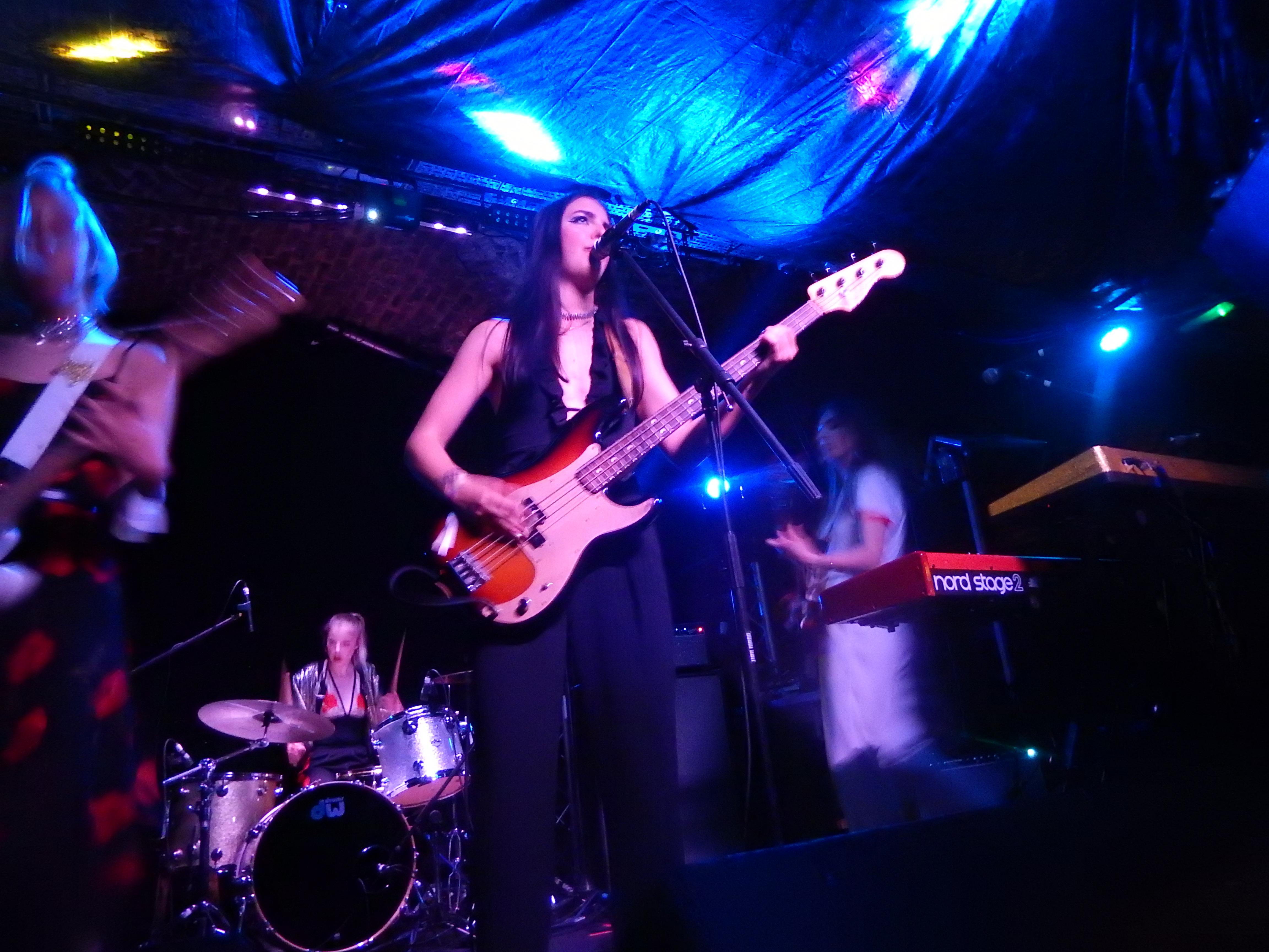 The Beaches, Coalition, Brighton (Great Escape 2018)